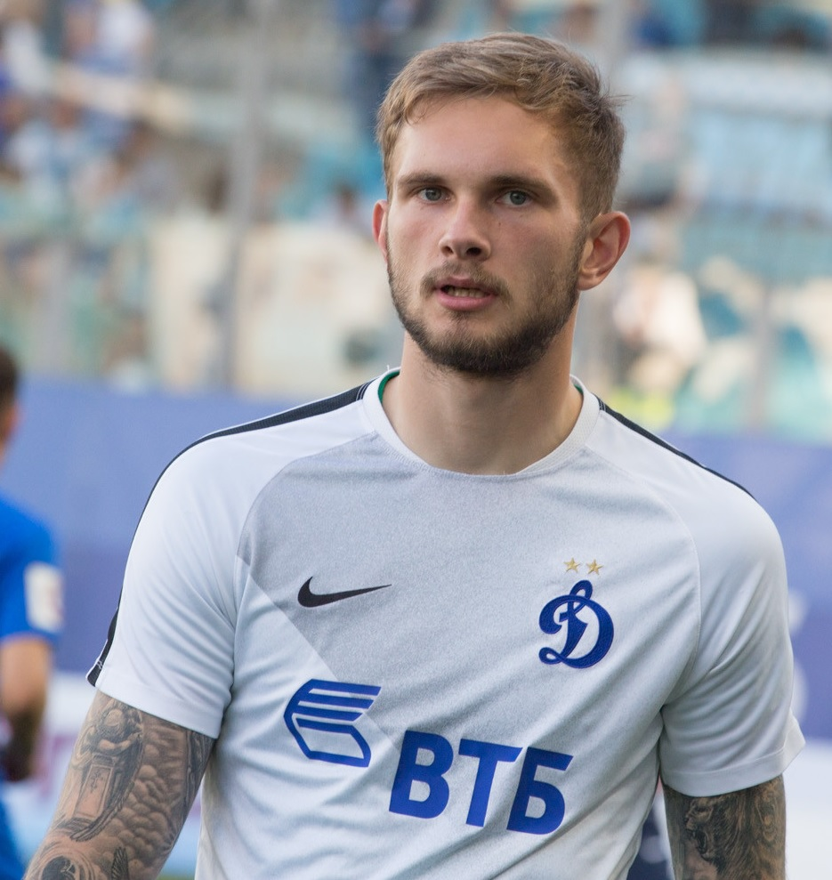 Igor Leshchuk with FC Dynamo Moscow before the game against FC Ural Yekaterinburg.